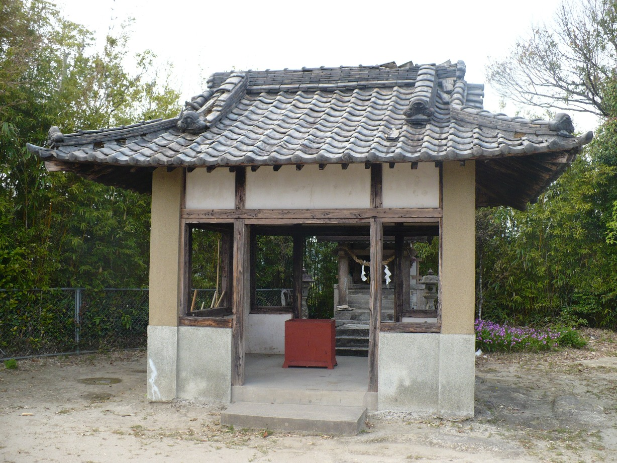 Yoneyama yakushi(Yoneyama shrine) in Aira town, Kagoshima prefecture, Japan